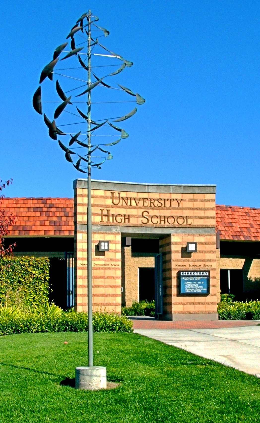 A picture of the entrance to University High School in Irvine, California, USA. The entrance was built in the mid-2000's in front of the school's original 1970 administration building.